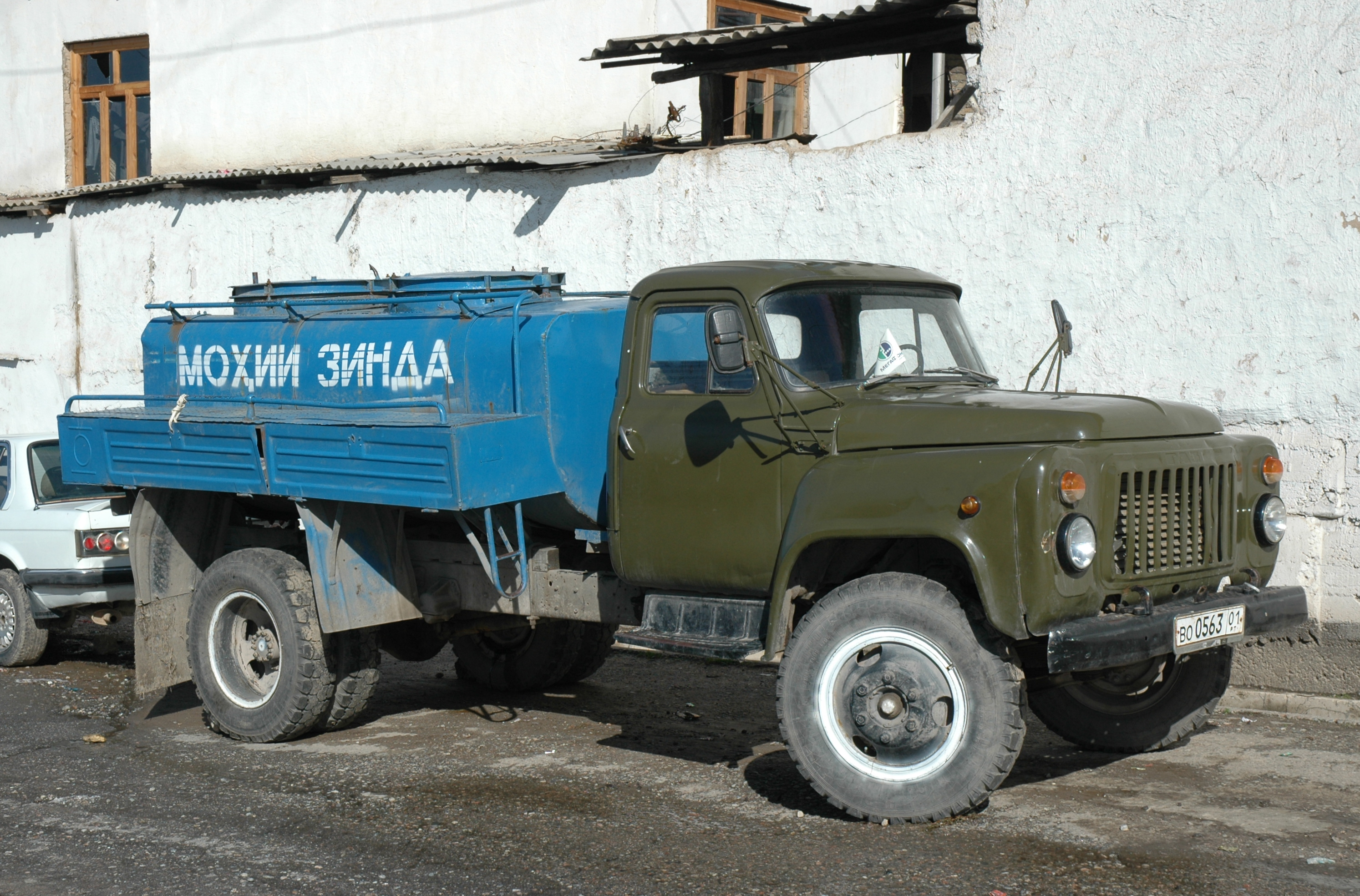 GAZ-53 truck in Dushanbe (Tajikistan)